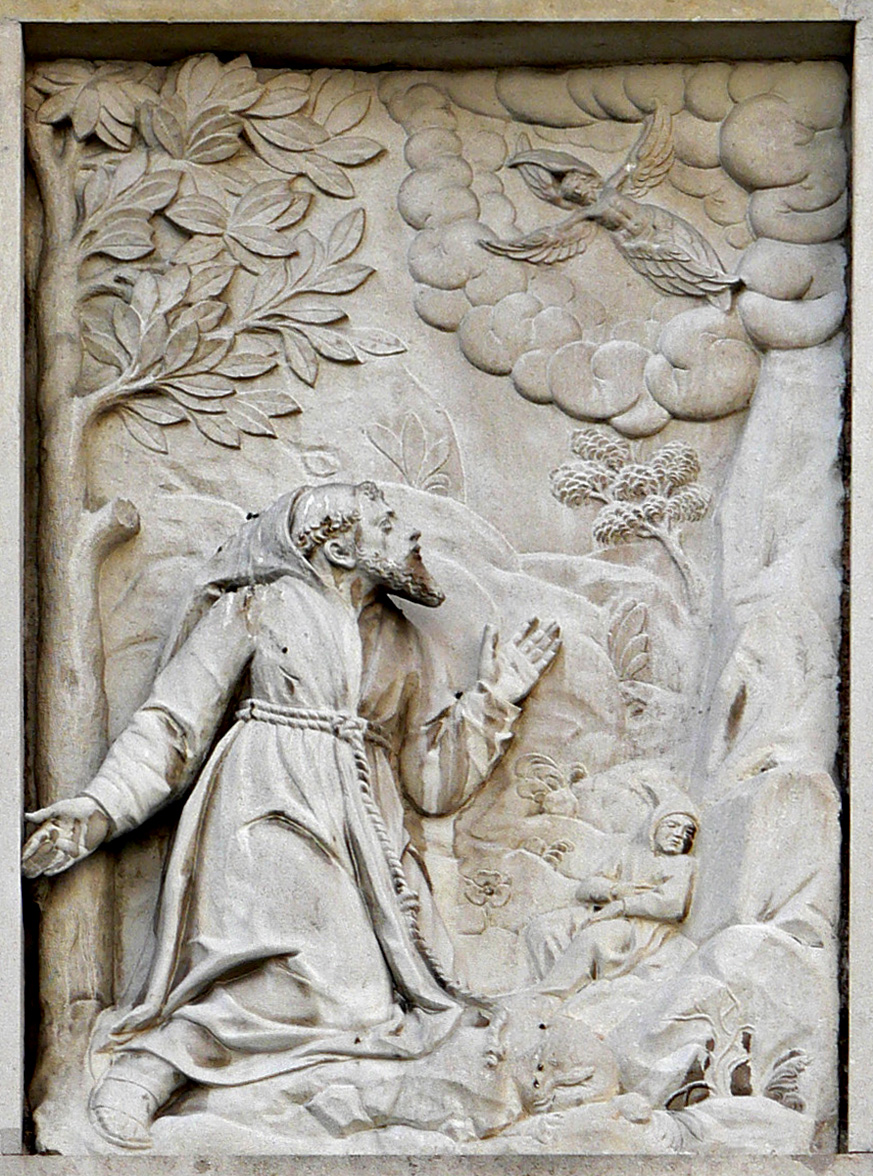 San Francesco di Assisi at Kapuzinerberg's gate in Salzburg.